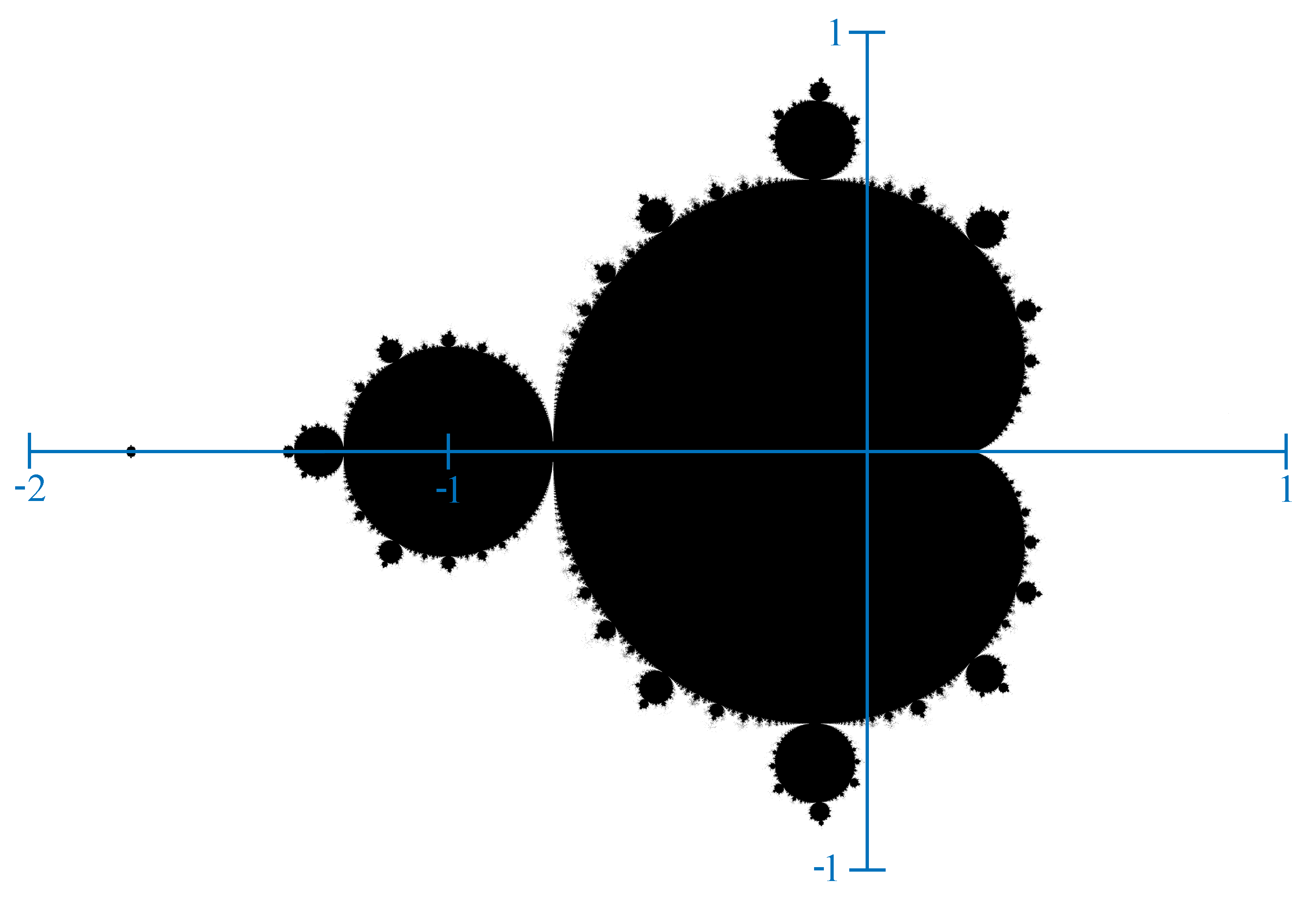 basic Mandelbrot Set with axes (high resolution)- a simplified version of the image File:Mandelset hires.png created by Connelly